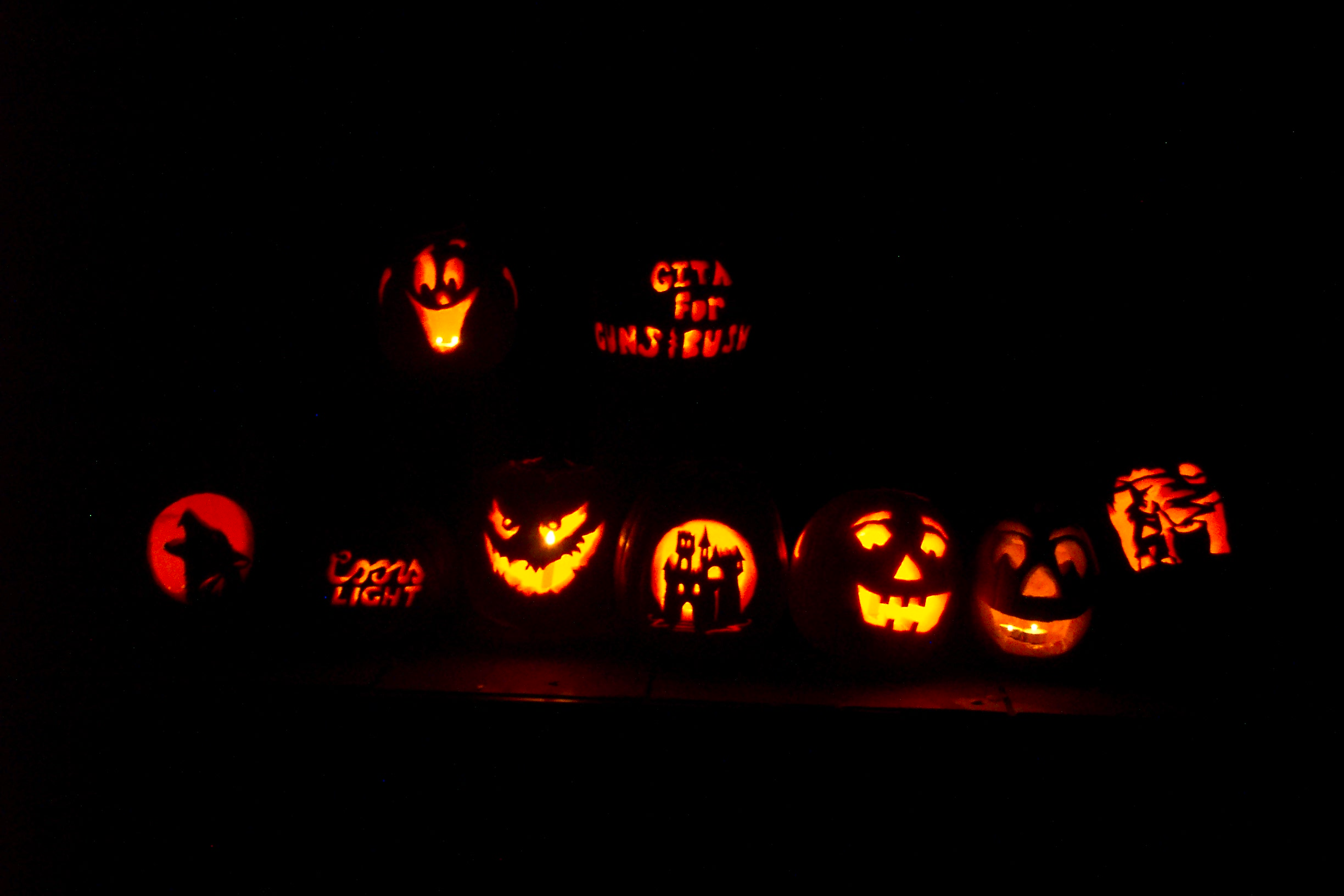 Pumpkins at Halloween.